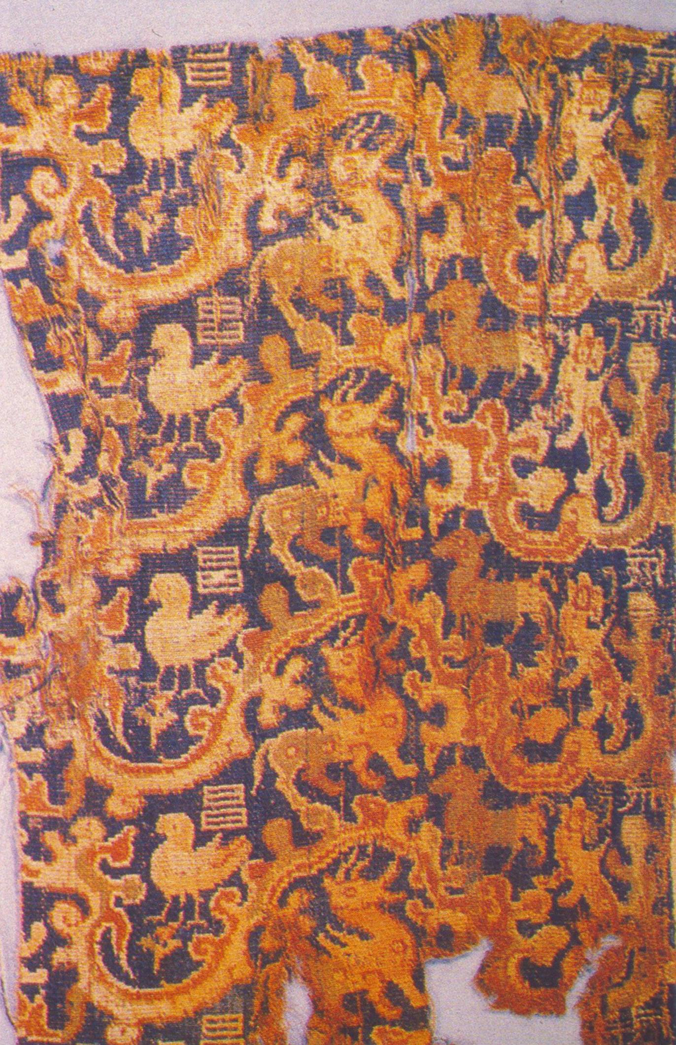 textile fragment from Loulan, China